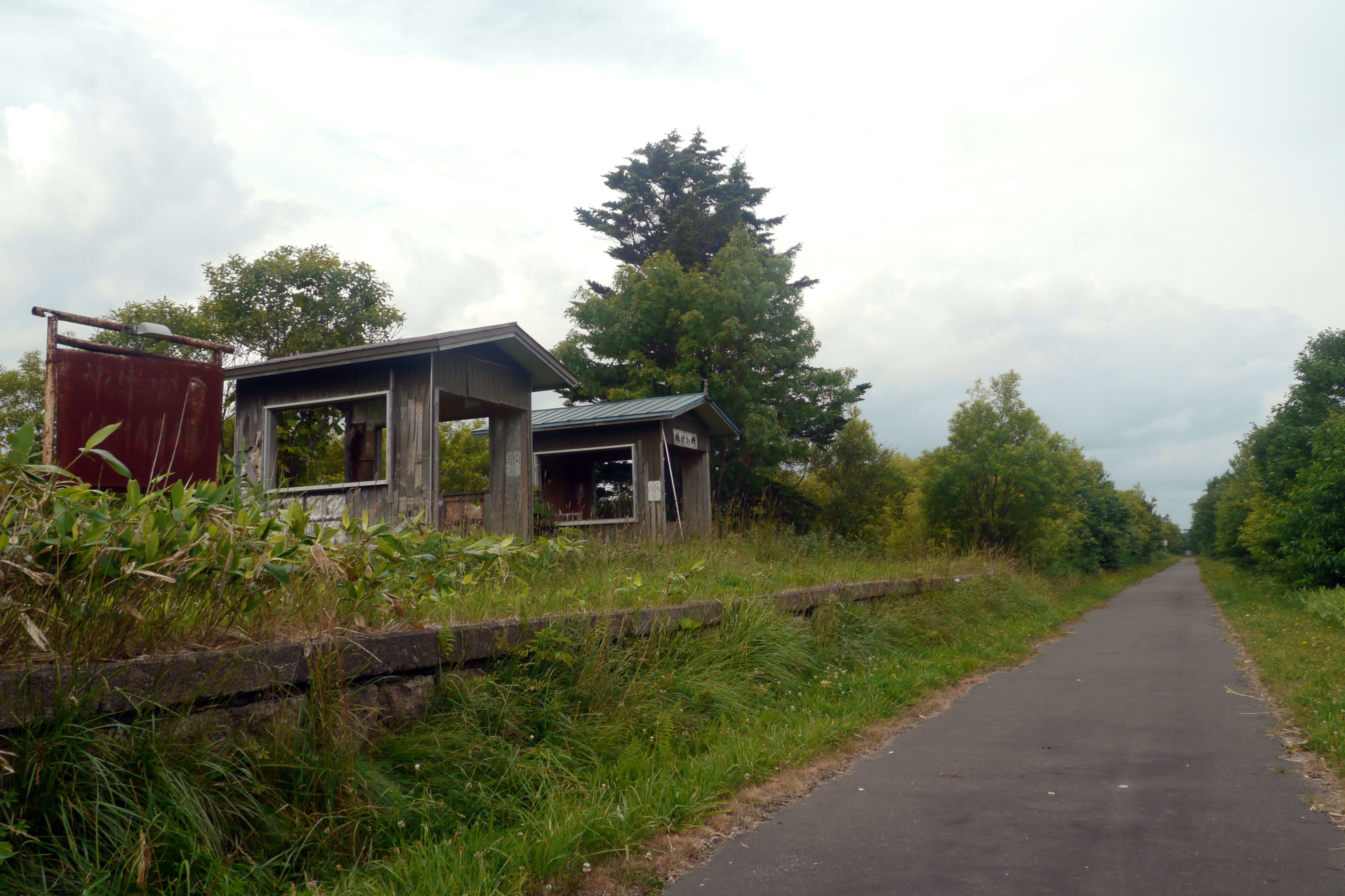 The remains of Yamagaru Station of the Tenpoku Line in Hokkaido, Japan. Photo taken on August 5, 2011.